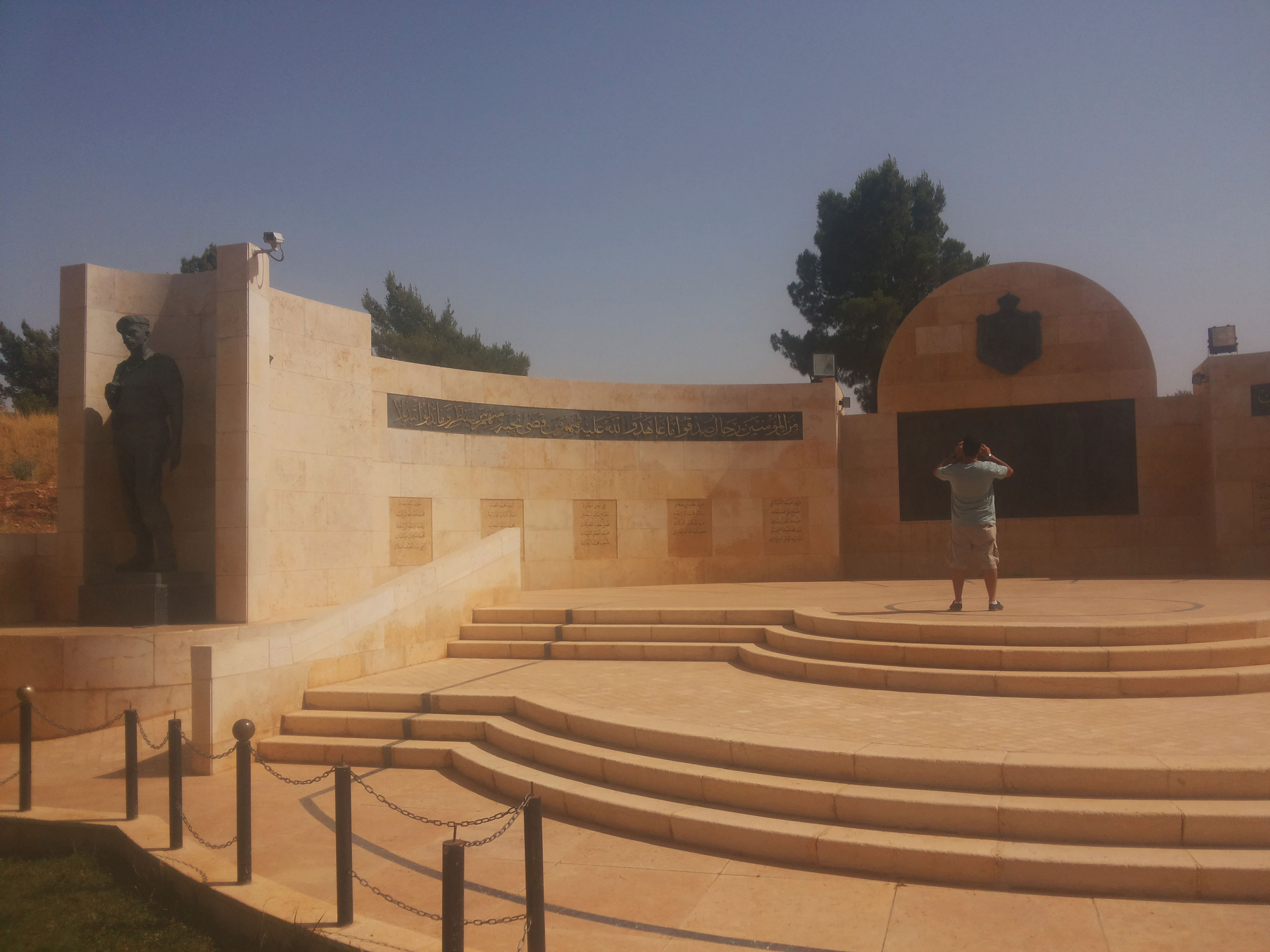 Martyr Memorial Monument between Mafraq and Irbid, Jordan